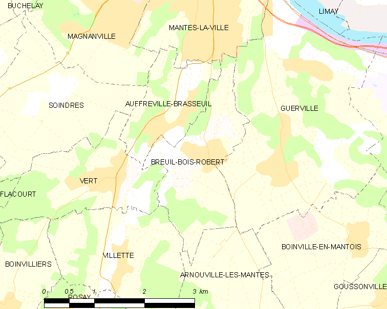 Map of French municipality Breuil-Bois-Robert